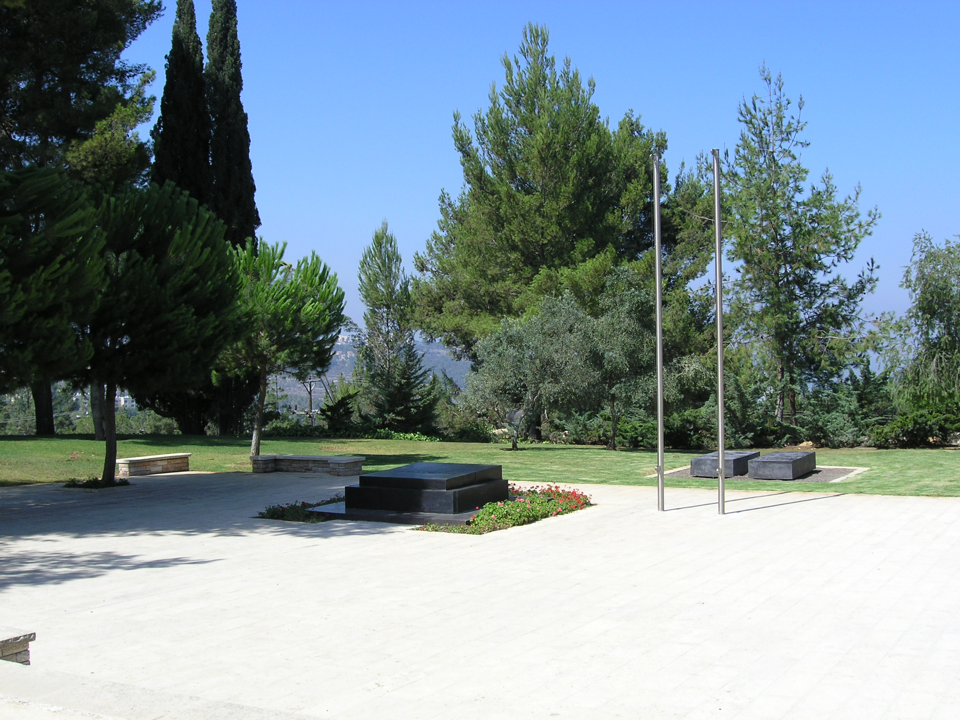 Ze'ev Jabotinsky's grave, Jerusalem (Israel)